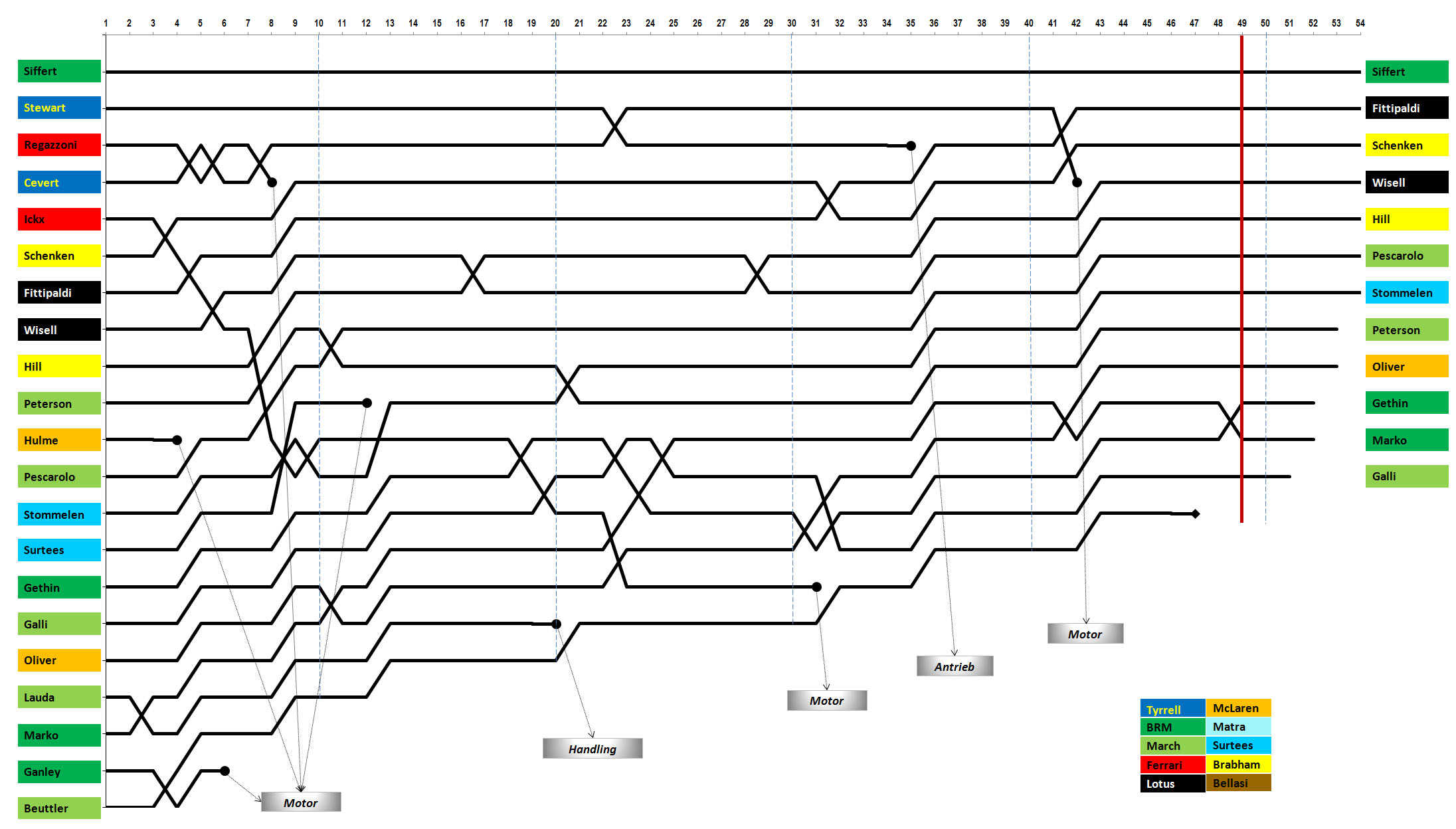 Round table austrian Grand Prix 1971